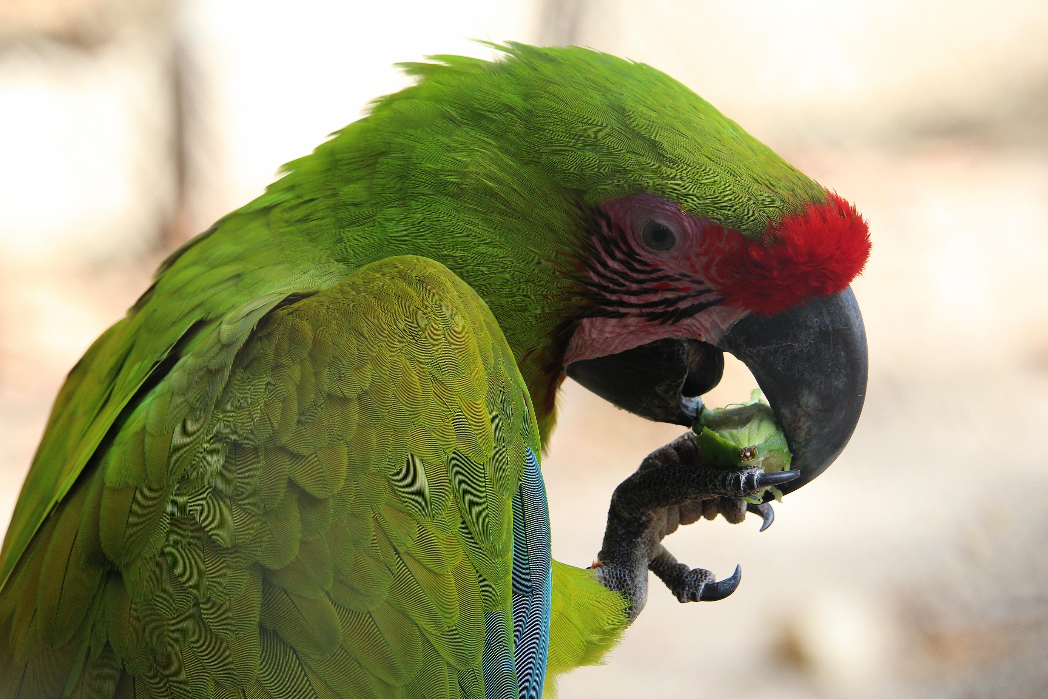 Beautiful macaw in Honduras enjoying a acorn Follow me at: or